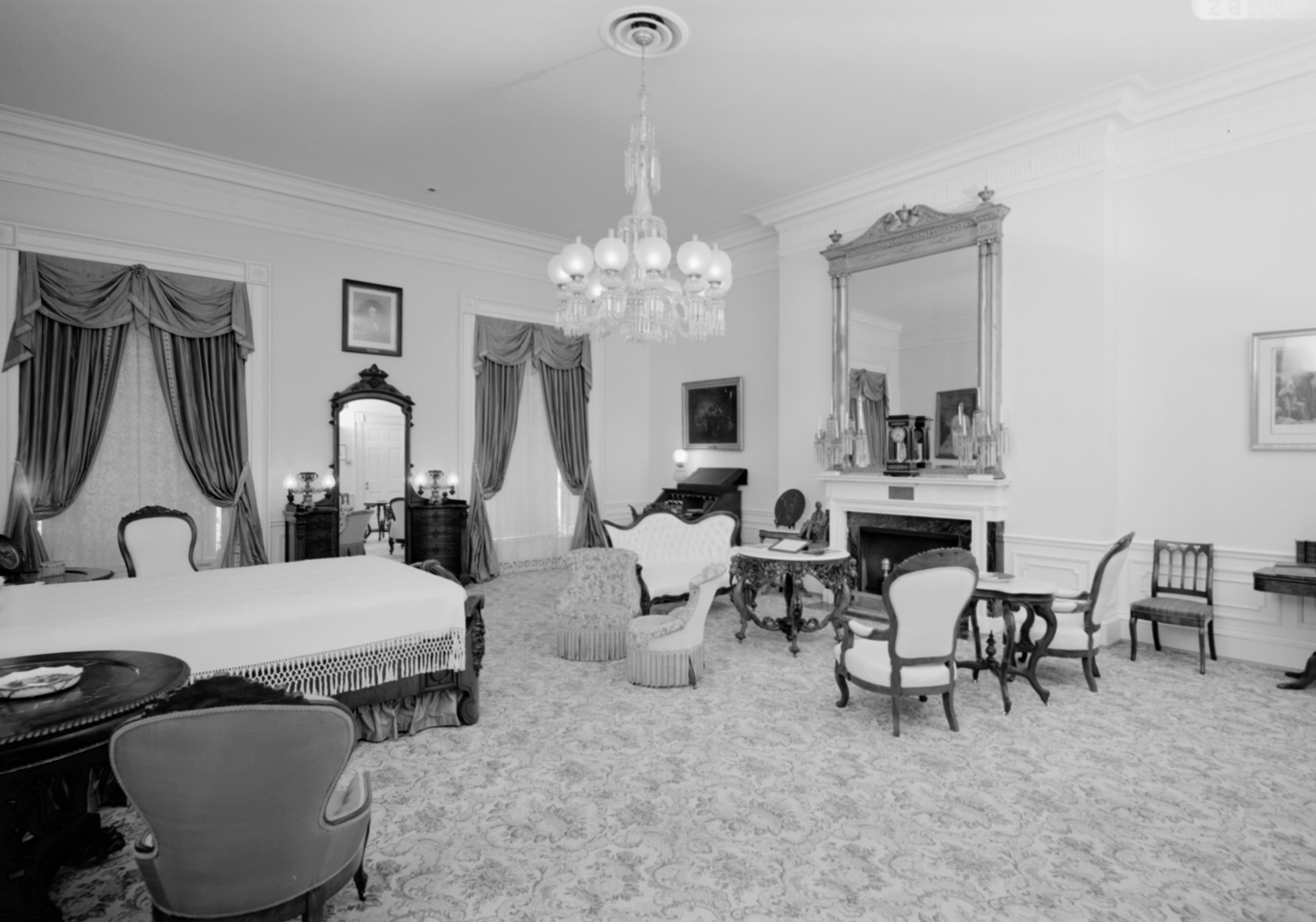 Lincoln Bedroom in the White House